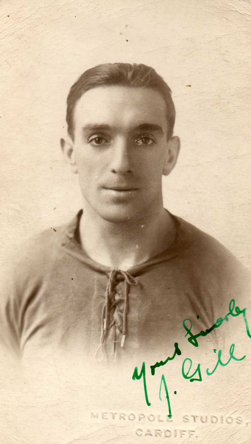 James J. "Jimmy" Gill (born 9 November 1894, date of death unknown) was an English professional footballer. He was born in Sheffield. Gill began his career at hometown side Sheffield Wednesday in 1913. With the club suffering financial difficulties he was sold to Cardiff City in 1920 for £750 and was the club's top scorer in its first year in the Football League. He would go on to consistentley challenge for the award along with strike partner Len Davies during his five years at the club. While at the club he also played in the 1925 FA Cup Final, which they went on to lose 1-0 to Sheffield United. The following season he left to join Frank Buckley's Blackpool. He made a scoring debut for Blackpool on 24 October 1925, in a 4–0 victory over Wolves at Bloomfield Road, netting the first goal. He made a further fourteen appearances during the 1925–26 league campaign, scoring three more goals. His final game for Blackpool occurred on 6 February 1926, in a 5–0 defeat at Port Vale. Gill ended his career with spells at Derby County and Crystal Palace.